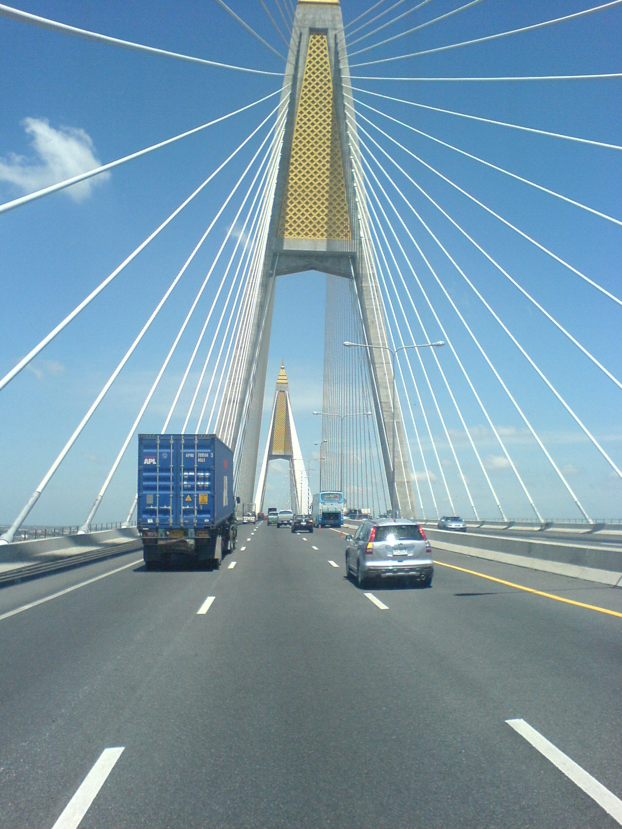 Kanchanaphisek Bridge in Mueang Samut Prakan (near Bangkok)